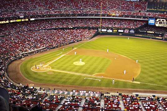 Busch Memorial Stadium, Thursday night, September 14, from the National Park Service cheering section.